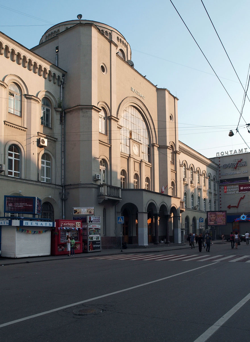 Central Post Office in Moscow (built 1911-1912)